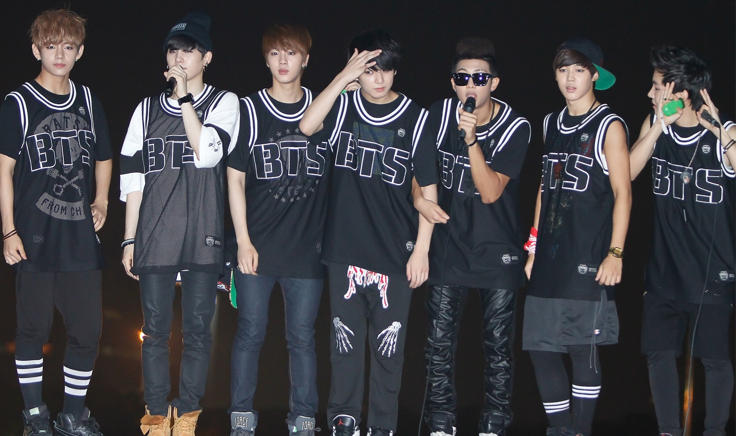 Bangtan Boys at a fanmeeting on Music Bank on July 26 2013.